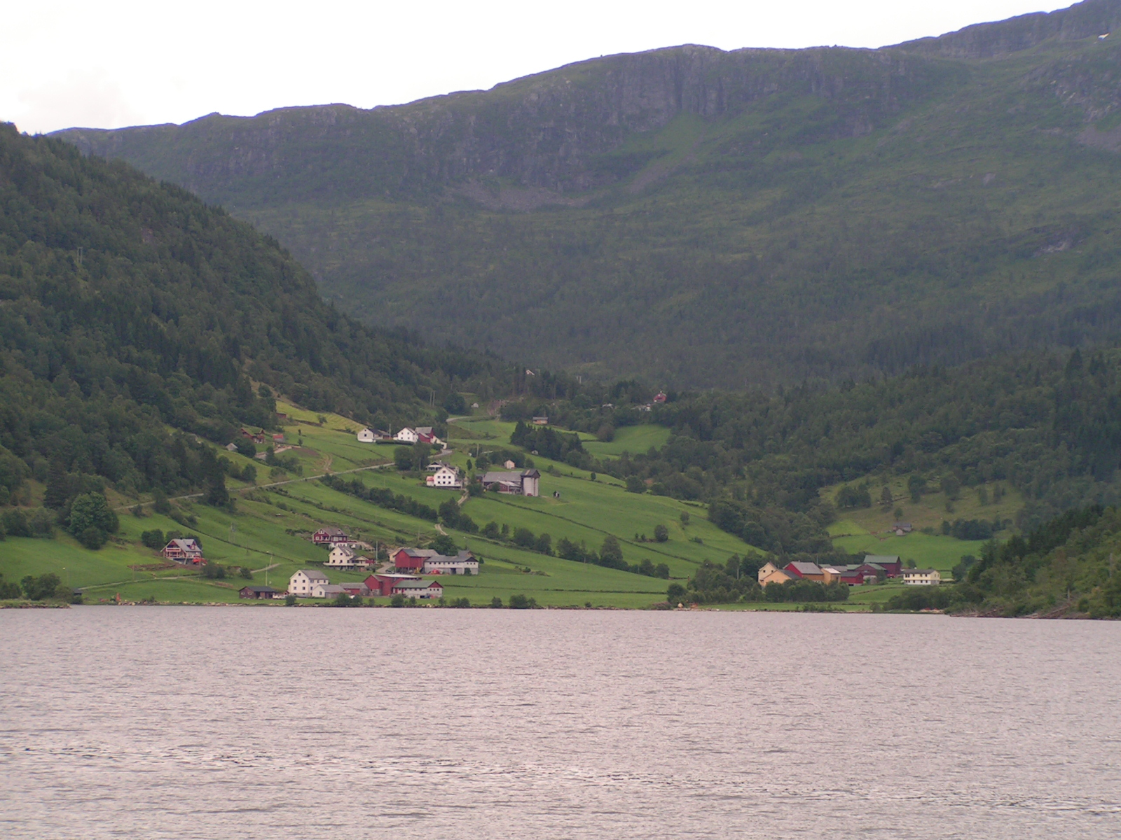 The lake Holsavatnet in Førde municipality Sogn og Fjordane county in Norway. The photo is taken from the valley Nydalen, Holsen and Skorpa is seen on the other side.